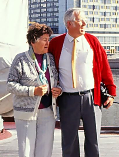 Villy Christensen, mayor in Frederikshavn 1970-1986 with his wife Hanne. Picture from Sct. Petersborg in Russia.